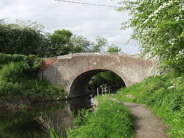 Canal bridge at Buttington Cross, Welshpool. Montgomery Canal bridges are all very similar and variations of a standard design.